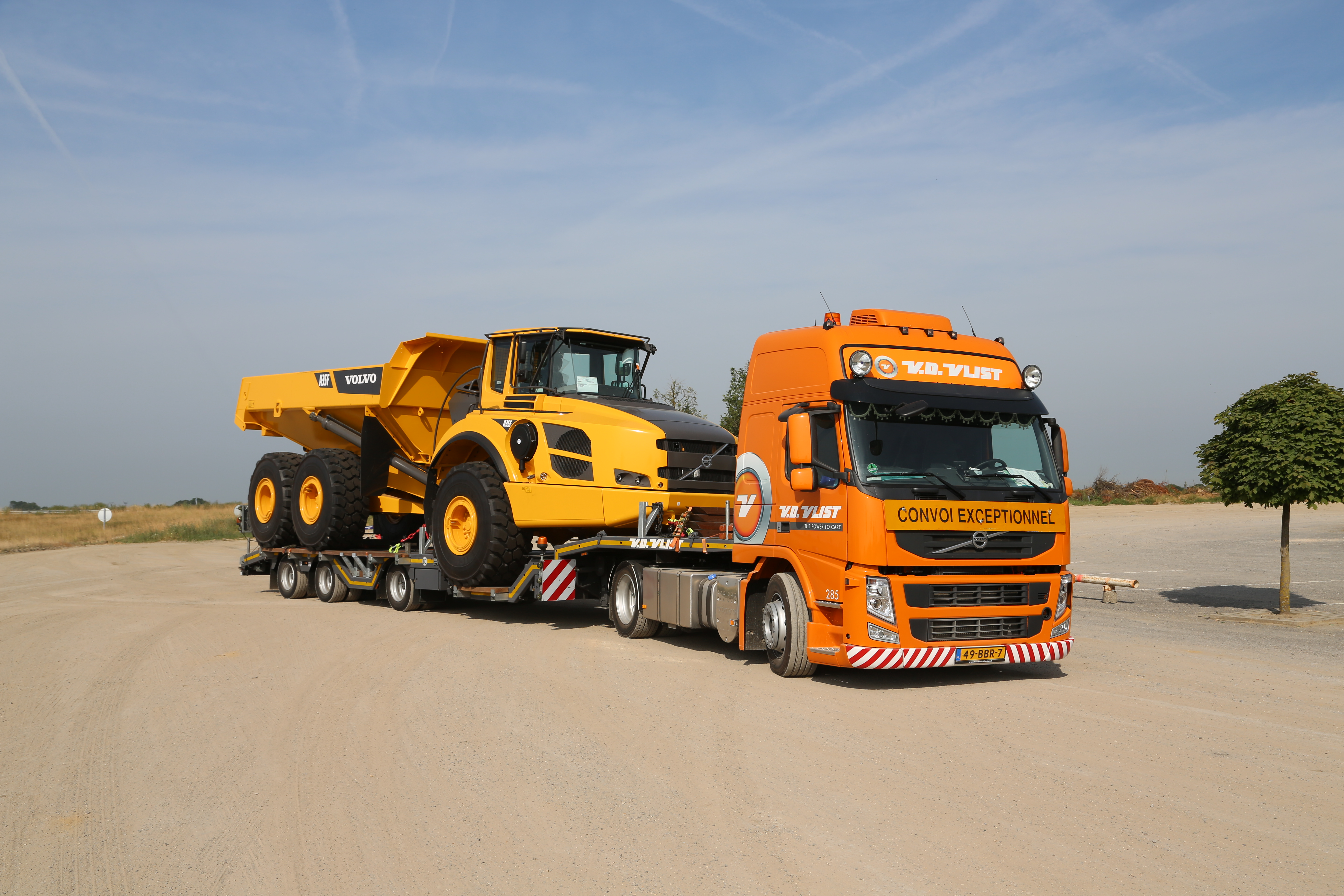 Van der Vlist truck carrying a Volvo dump truck